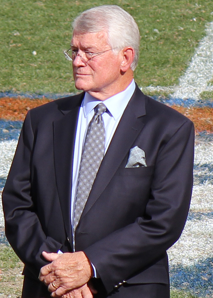 Dan Reeves, a former American football player and head coach.